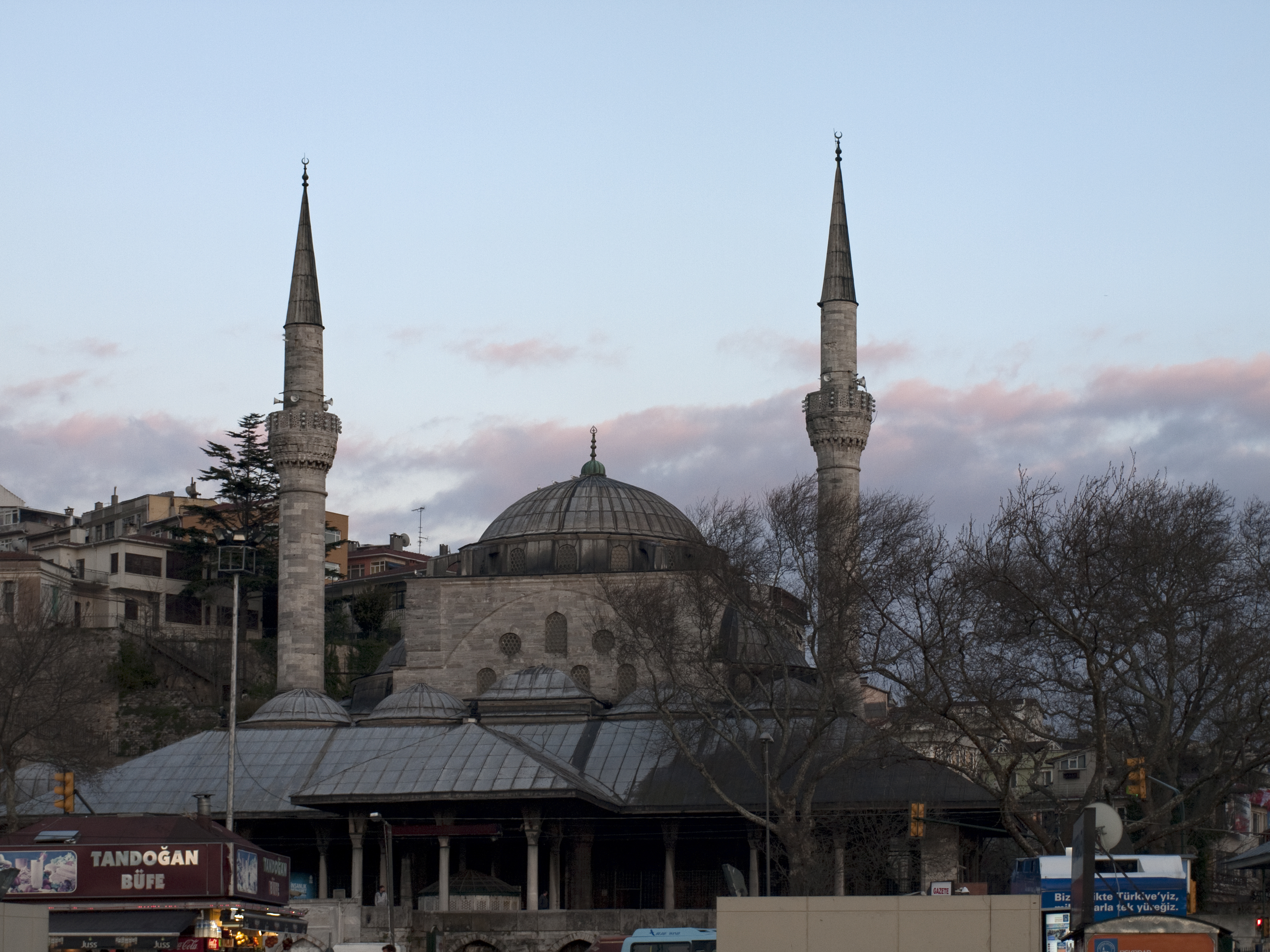 Exterior of the Mihrimah Sultan Mosque (Üsküdar), view from the harbour